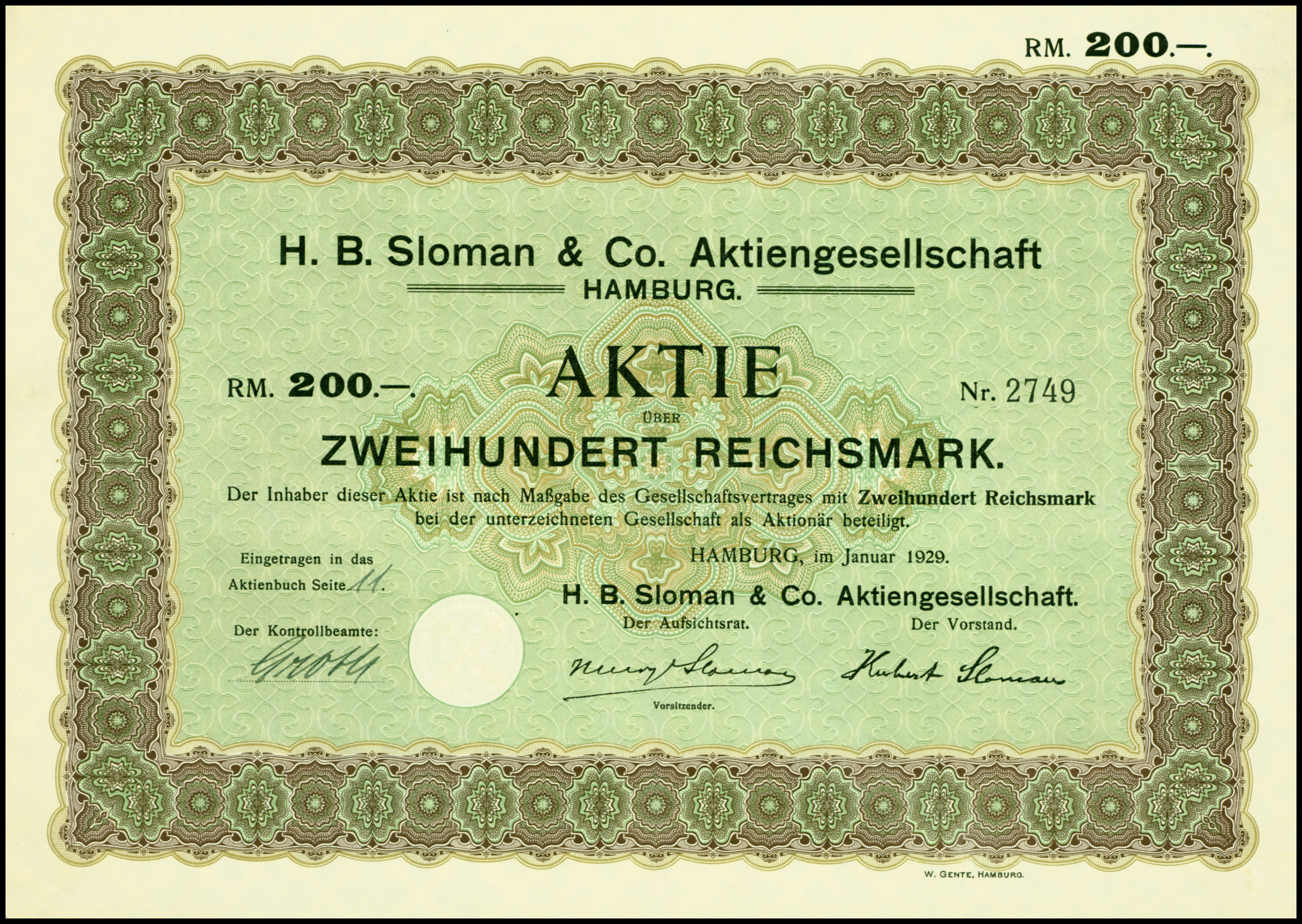 Share of the H. B. Sloman & Co. AG, issued January 1929